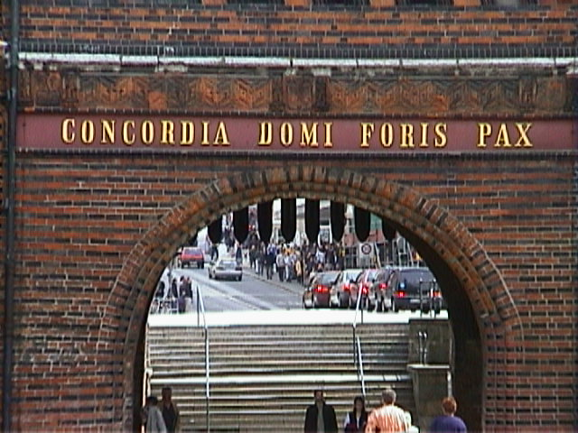 CONCORDIA DOMI FORIS PAX written on the Holstentor in Lübeck, Germany.